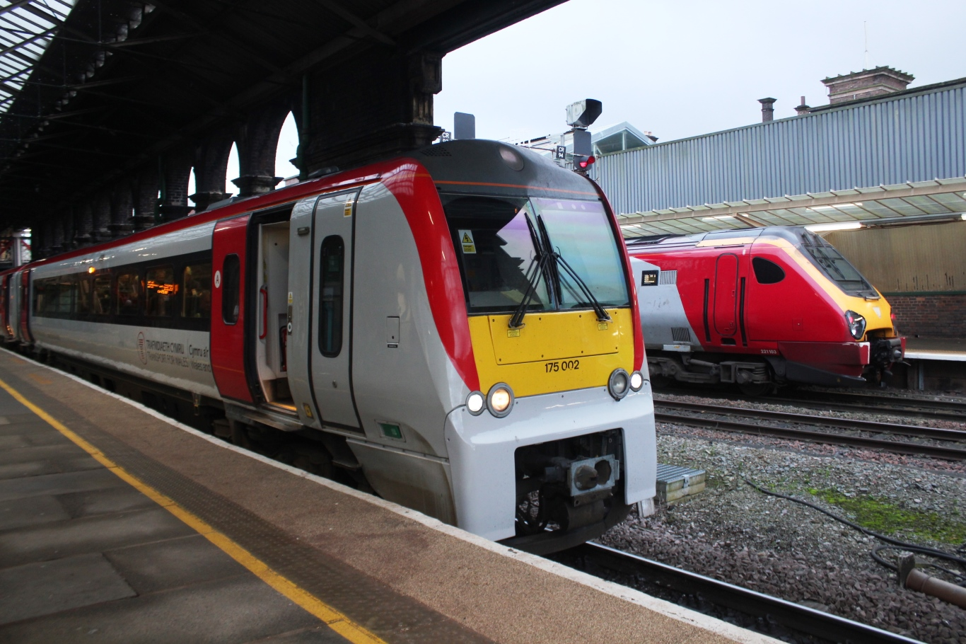 175002 (left) is at Chester on a Transport for Wales service from Cardiff to Holyhead while 221103 has just arrived from London with an Avanti West Coast service.